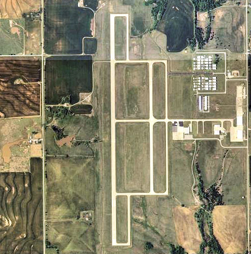 USGS digital orthophoto of Clarence E. Page Municipal Airport in Oklahoma City, Oklahoma, United States